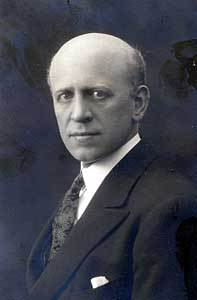 Photo of Swedish industrialist and philanthropist Axel Adler